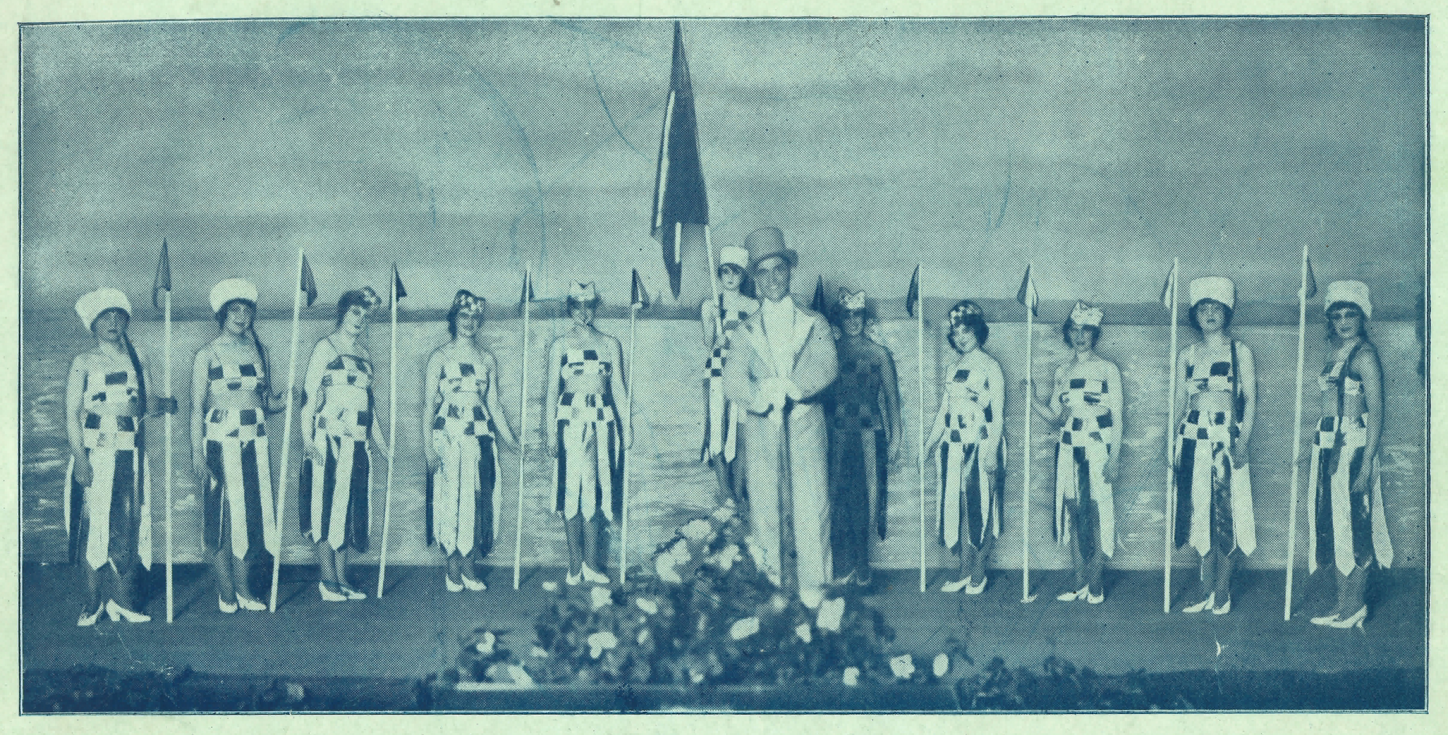 Final scene from the revue "Blått-Blått eller Blått och bart" by Svasse Bergqvist och Birger Sjöberg in Helsingborg 1919, The man in white tails is probably actor Gösta Bodin.